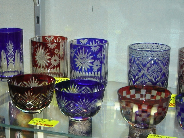 Edo-Kiriko, a traditional cut glass craft in Asakusa, Tokyo, Japan.